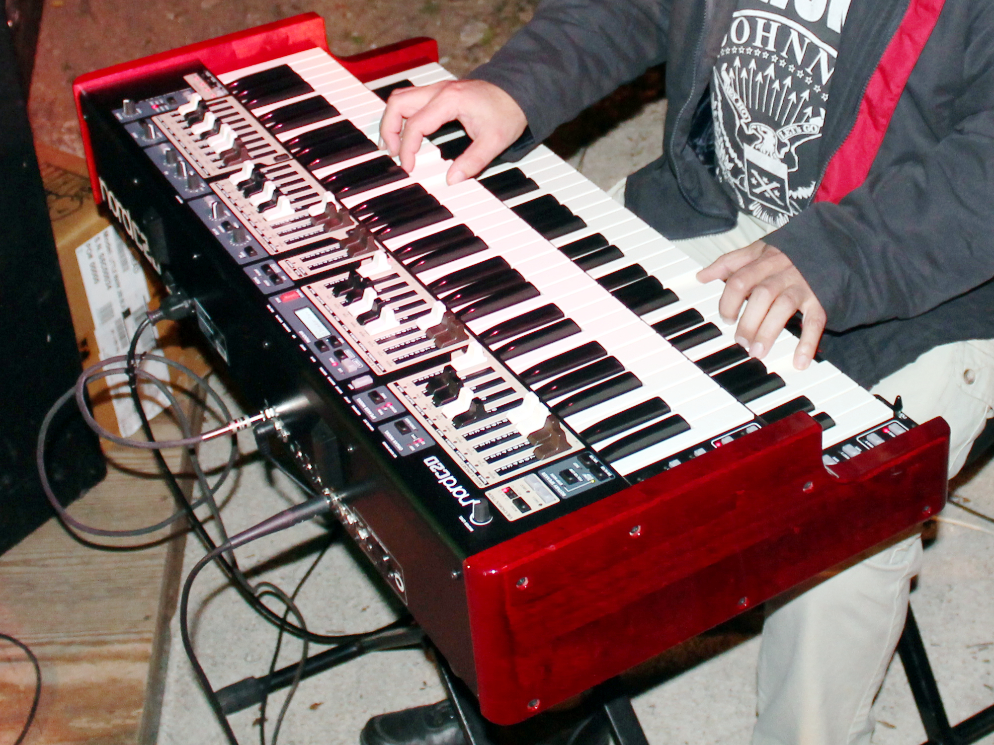 Clavia Nord C2D Combo Organ (rear angled)